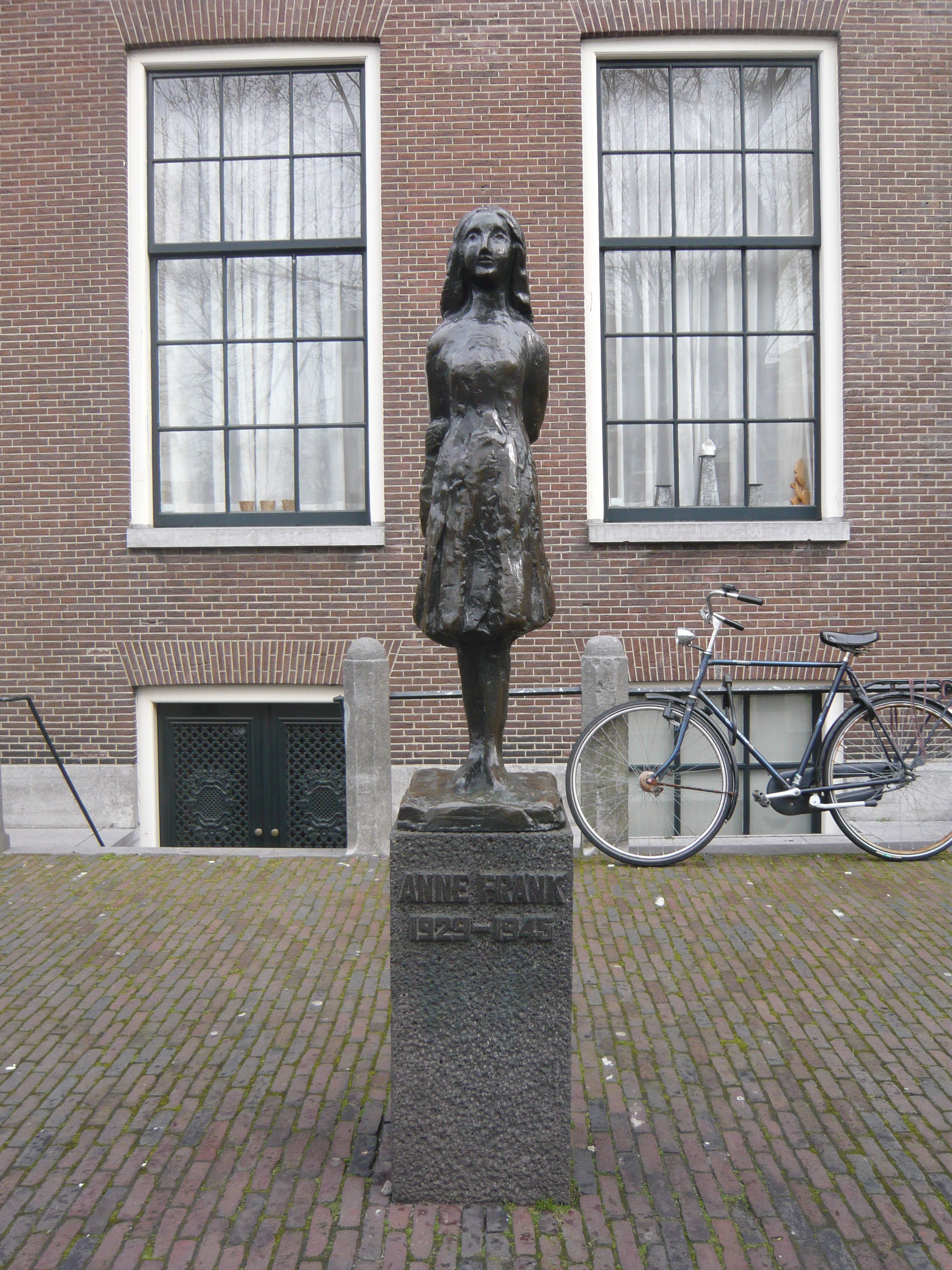 Anne Frank House, Amsterdam, Netherlands